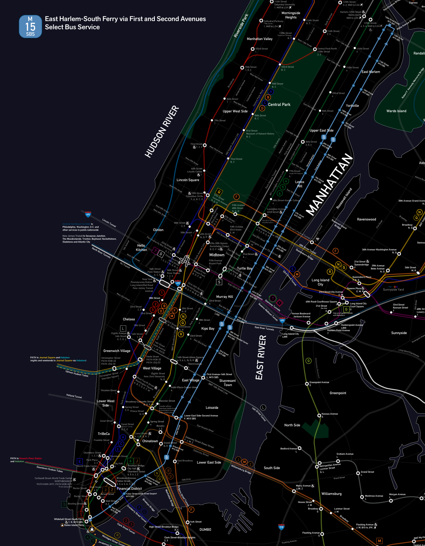 A map of the M15 SBS.